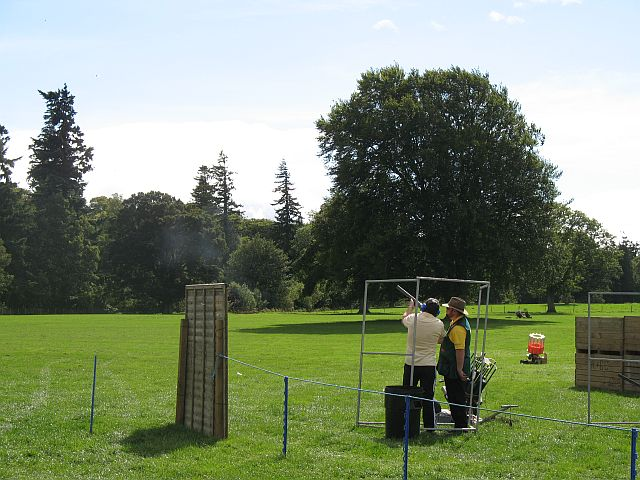 Clay pigeon shooting Contest at the Countryside Fayre. Off camera, the clay was successfully hit.